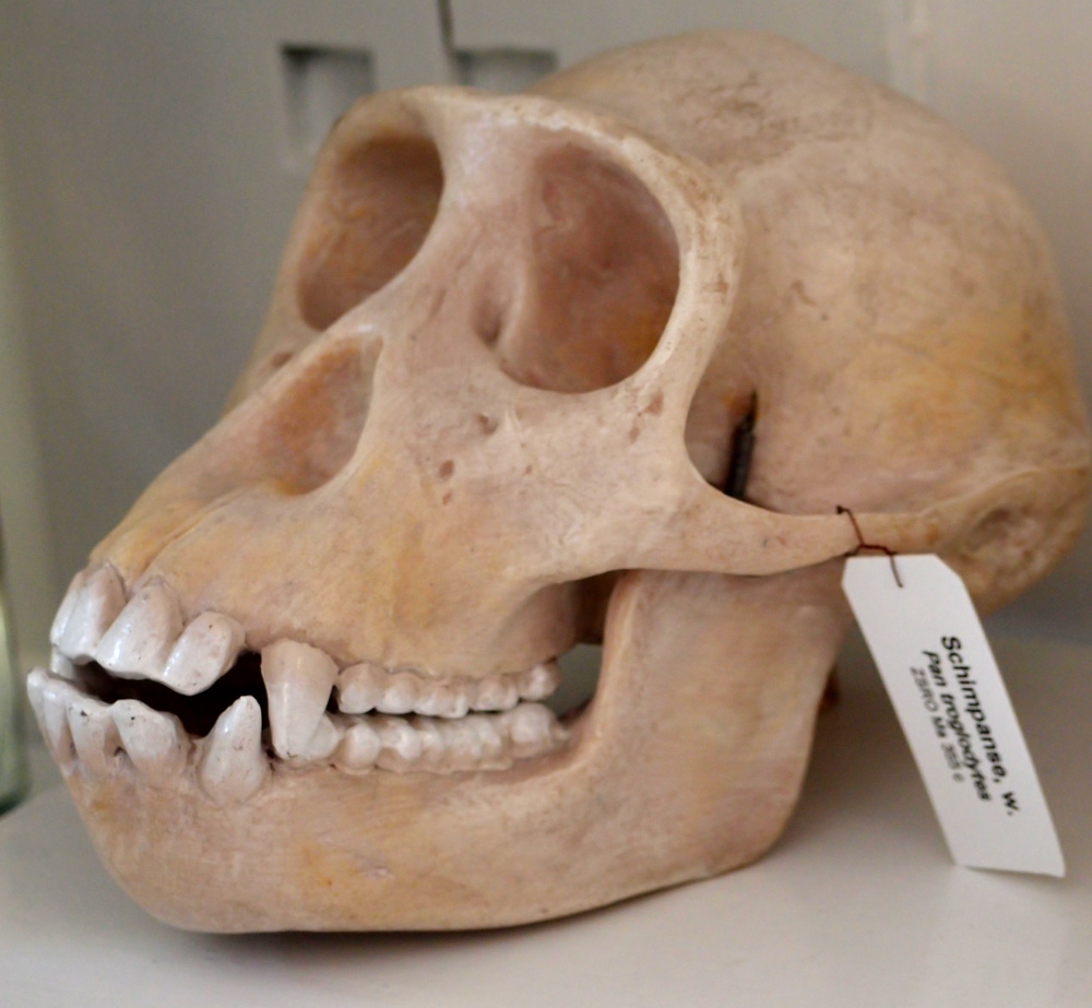 Model from the zoological collection Rostock, Germany. see also for more information on the models